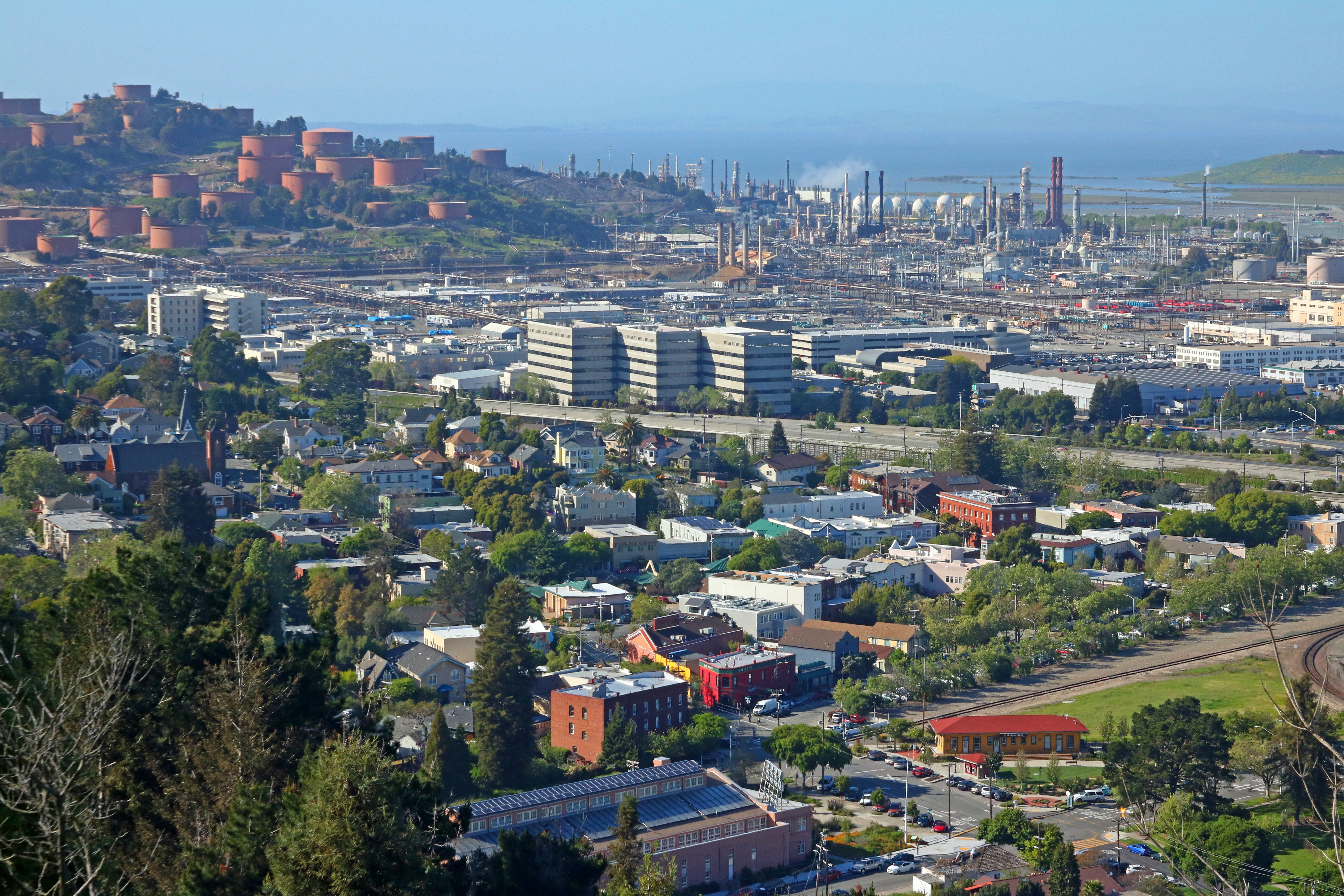 View of Pt. Richmond and Chevron Refinery, Richmond CA, from Nicholl Knob in 2016